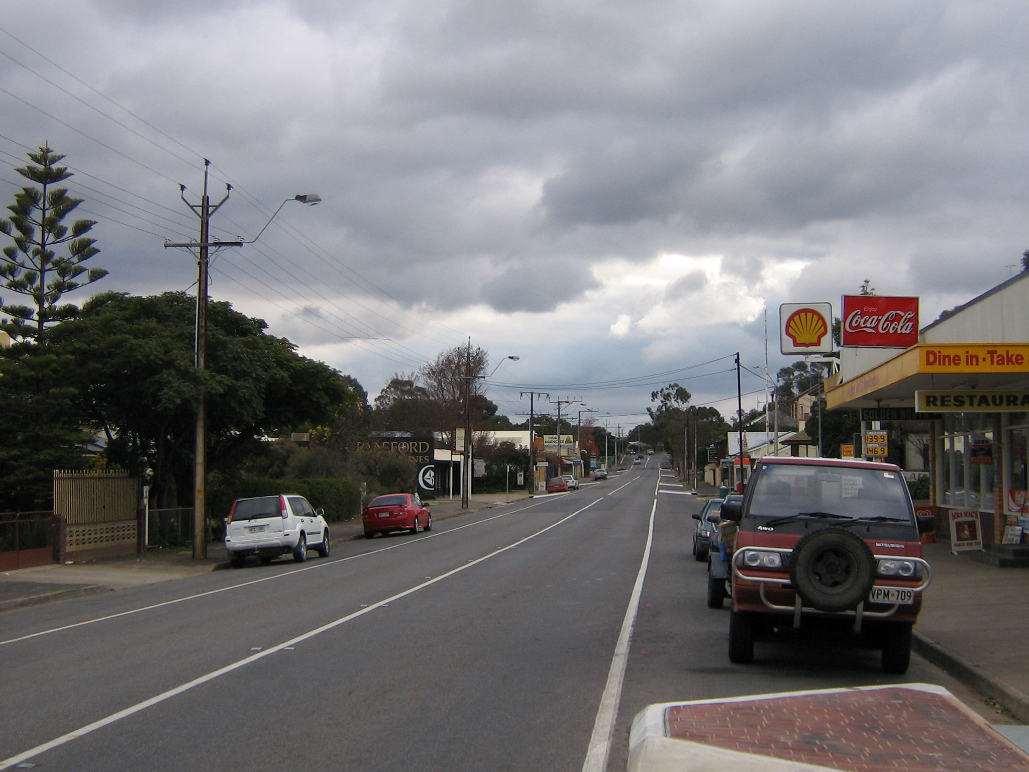 The Sturt Highway is the main street of Truro in South Australia. View is towards the west.